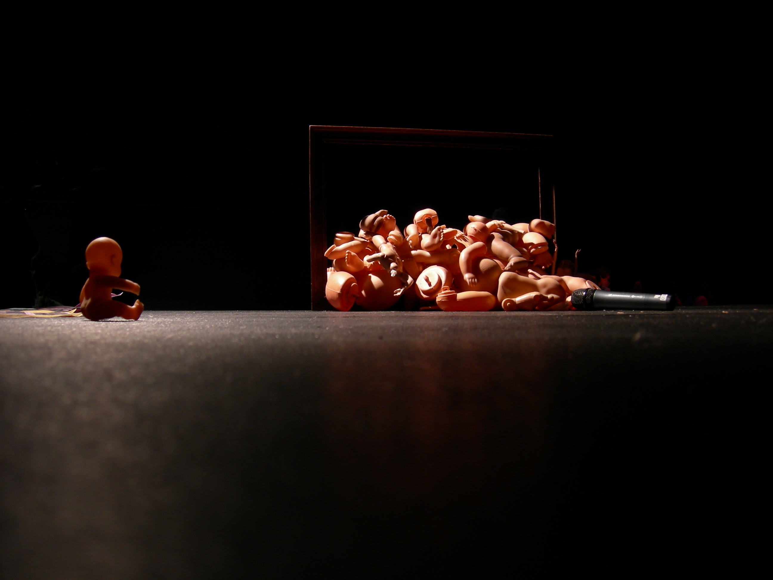 Pile of broken dolls representing casualties of war. Festival of Lies performed at On the Boards, Seattle, Washington, USA by Congolese dance theater troupe Studios Kabako with the participation of dancer/choreogropher Faustin Linyekula.